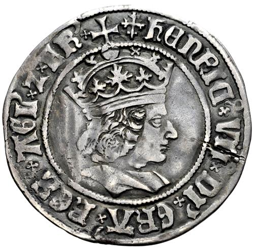 Henry VII groat, struck 1505